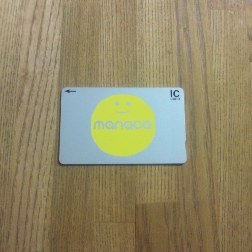 Manaca,one of IC card in Japan(it's using in Nagoya area).This photo was taken by myself.